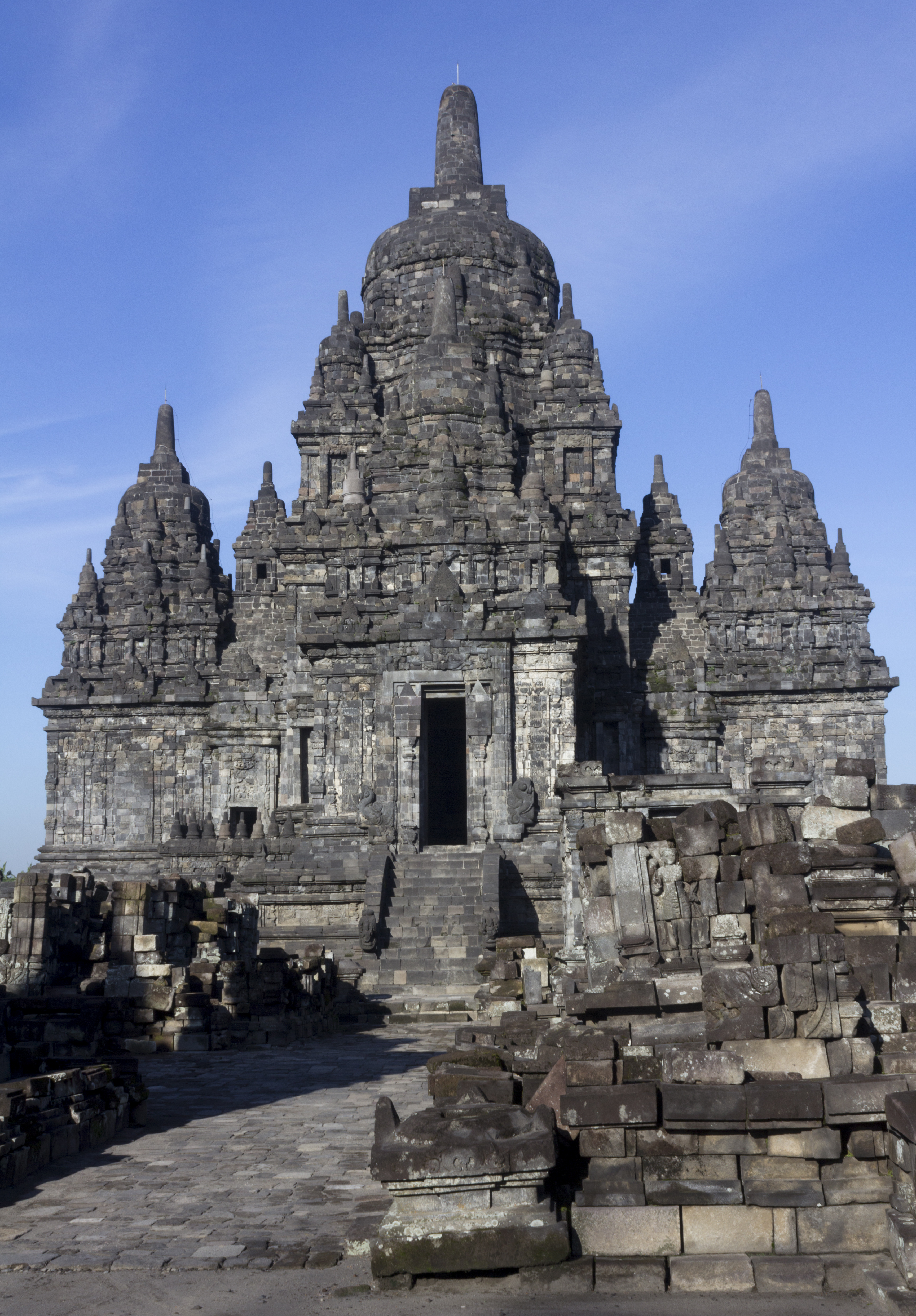 Main stupa of Candi Sewu